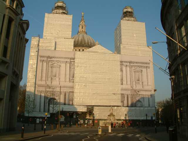 St Paul's Cathedral clad for cleaning - London - England.